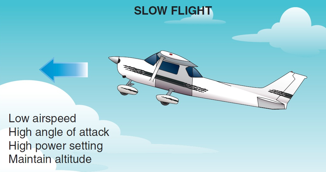 Aircraft in Slow Flight